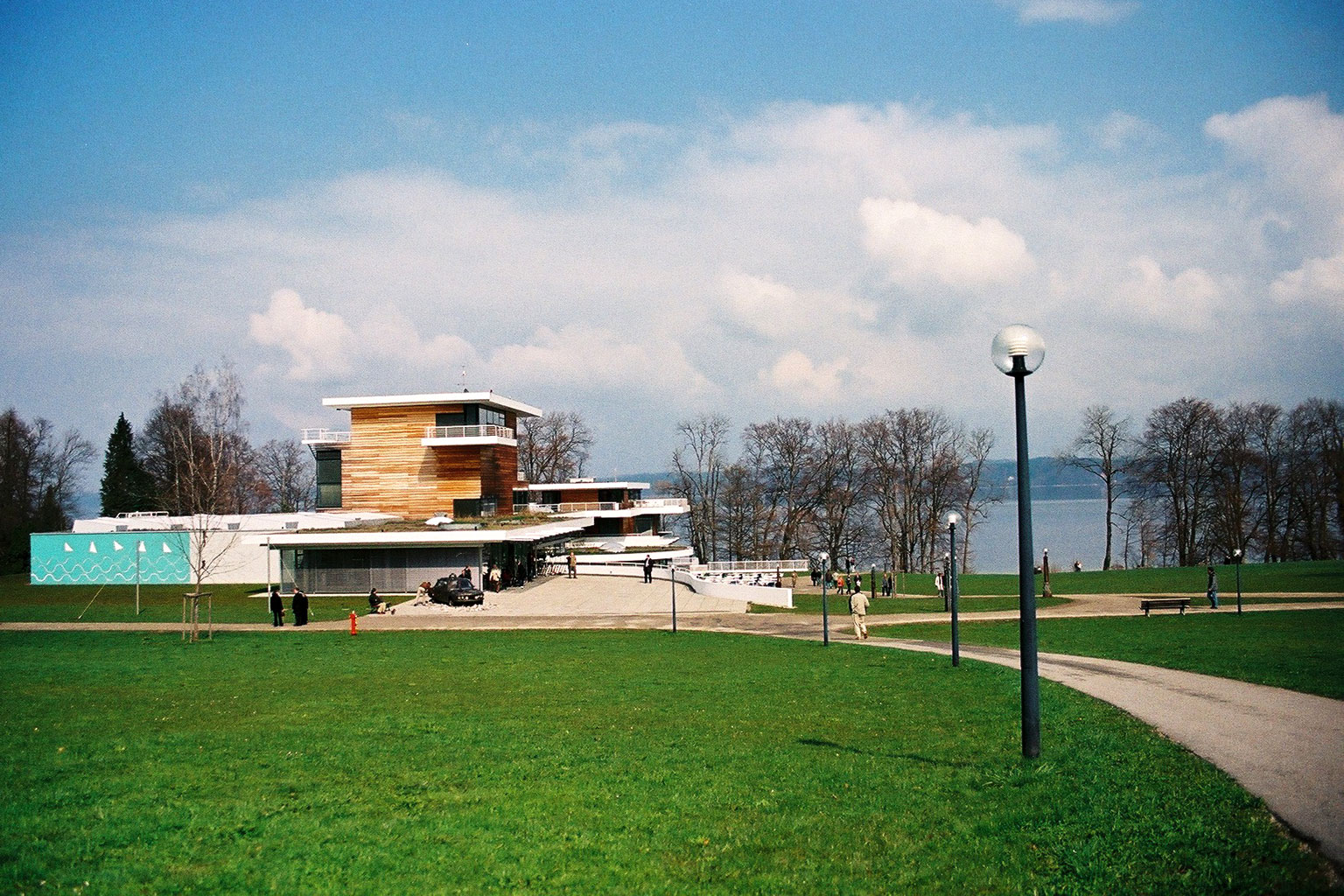 Buchheim Museum in Bernried, Germany also called “Museum der Phantasie” (Museum of Phantasy), housing the Lothar-Günther Buchheim Collection exterior view from the park